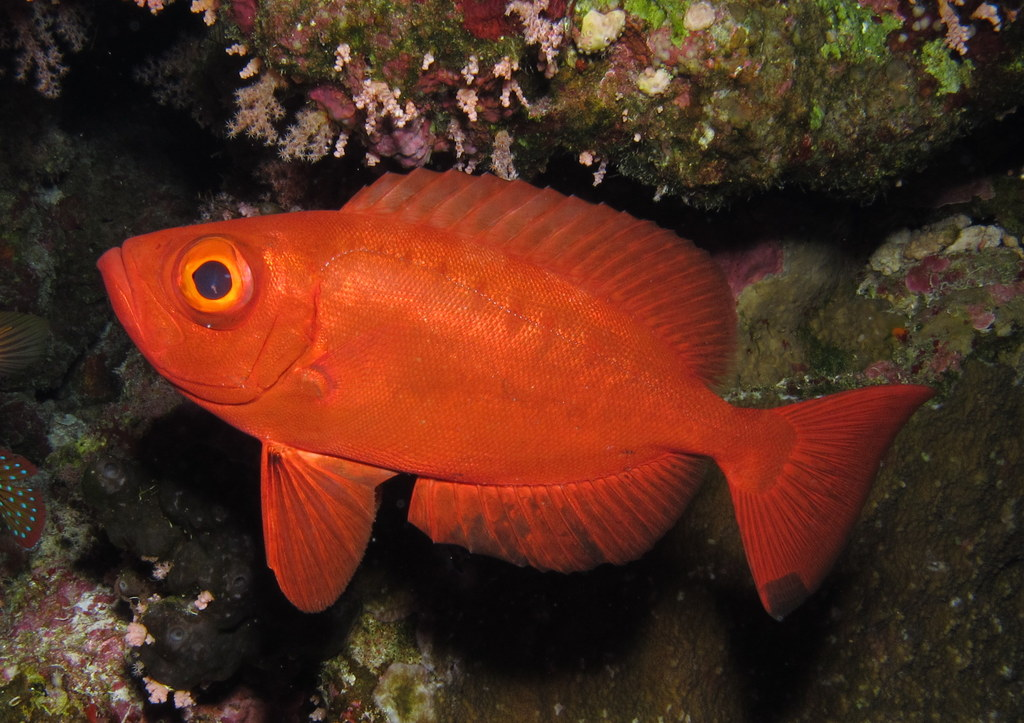 Crescent-tail bigeye, Priacanthus hamrur, at Elphinstone Reef, Red Sea, Egypt #SCUBA